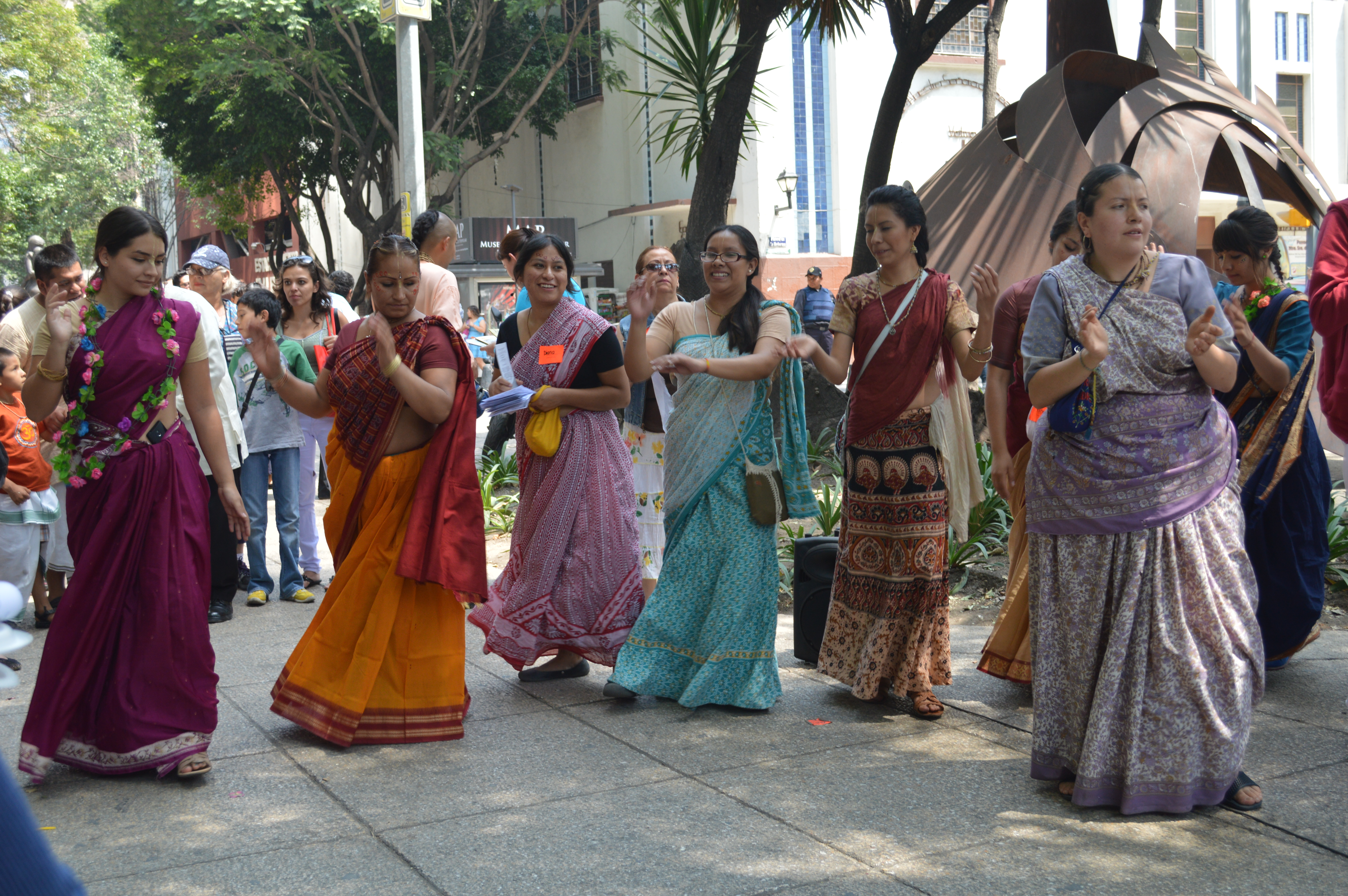 Hare Krishnas dancing at the Feria de las Culturas Amigas in Mexico City